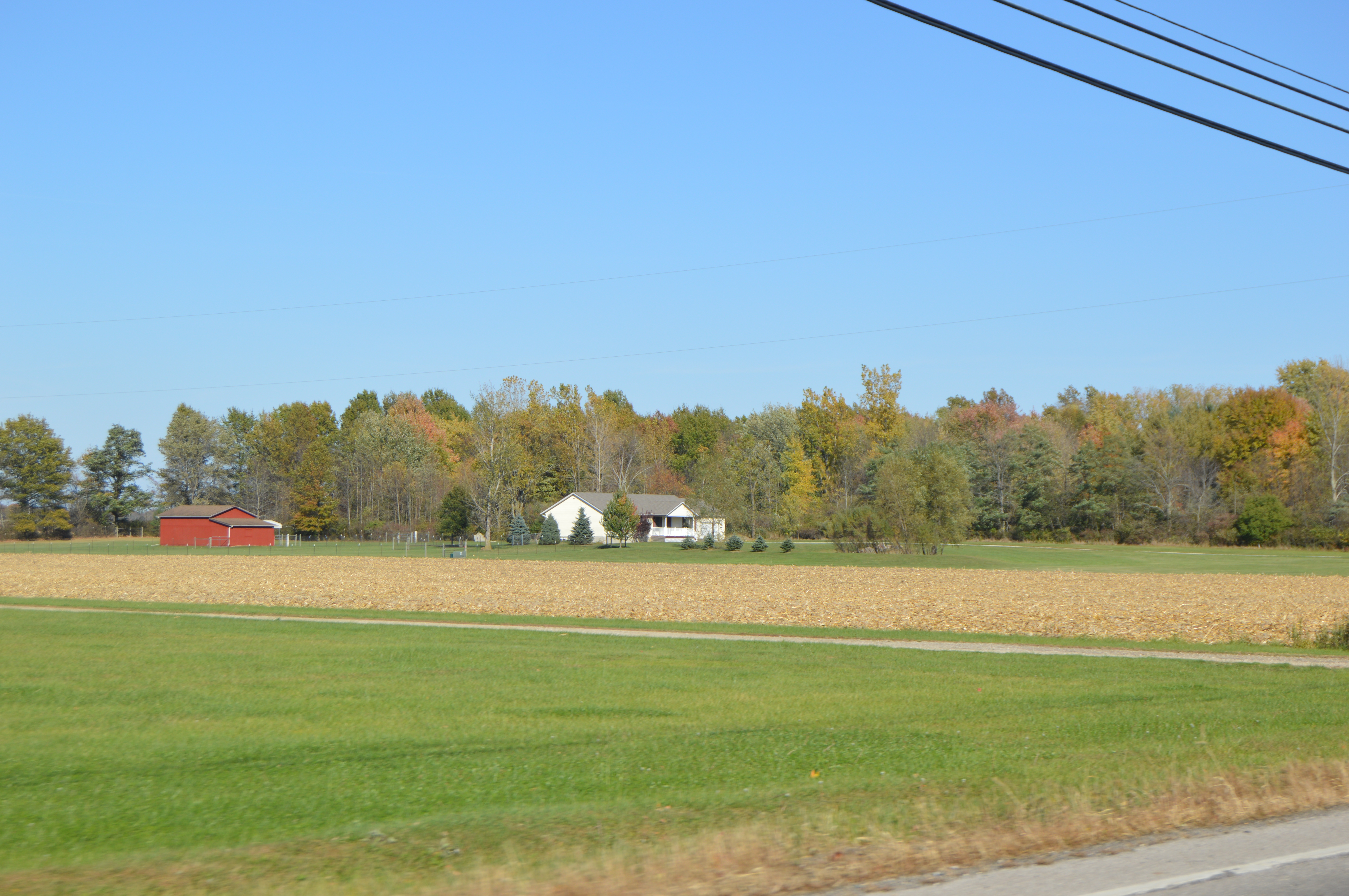 Fields on State Route 309 east of the State Route 181 intersection in Springfield Township, Richland County, Ohio, United States.